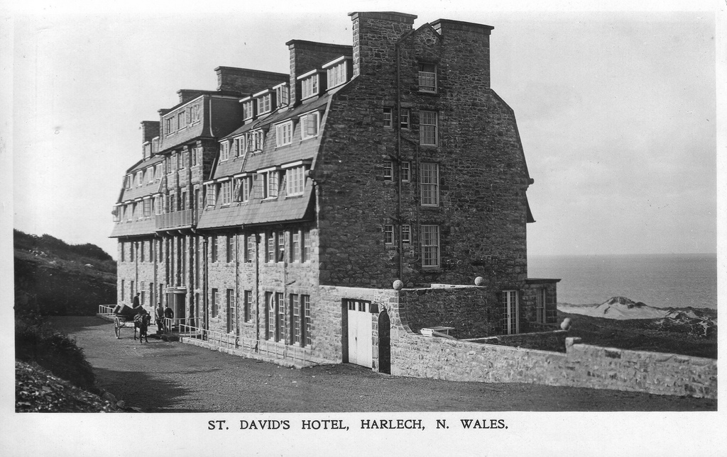 St David’s Hotel, photo taken prior to 1922